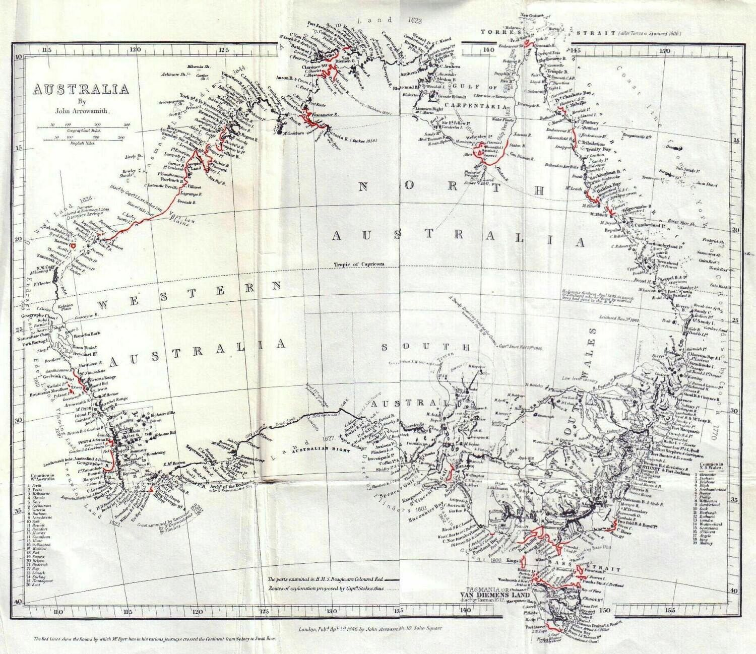 This is a chart entitled "General Chart of Australia", which accompanied Volume 1 of John Lort Stokes' 1846 book Discoveries in Australia. Parts of the coastline of Australia that were examined by the HMS Beagle under Stokes' command are coloured in red.